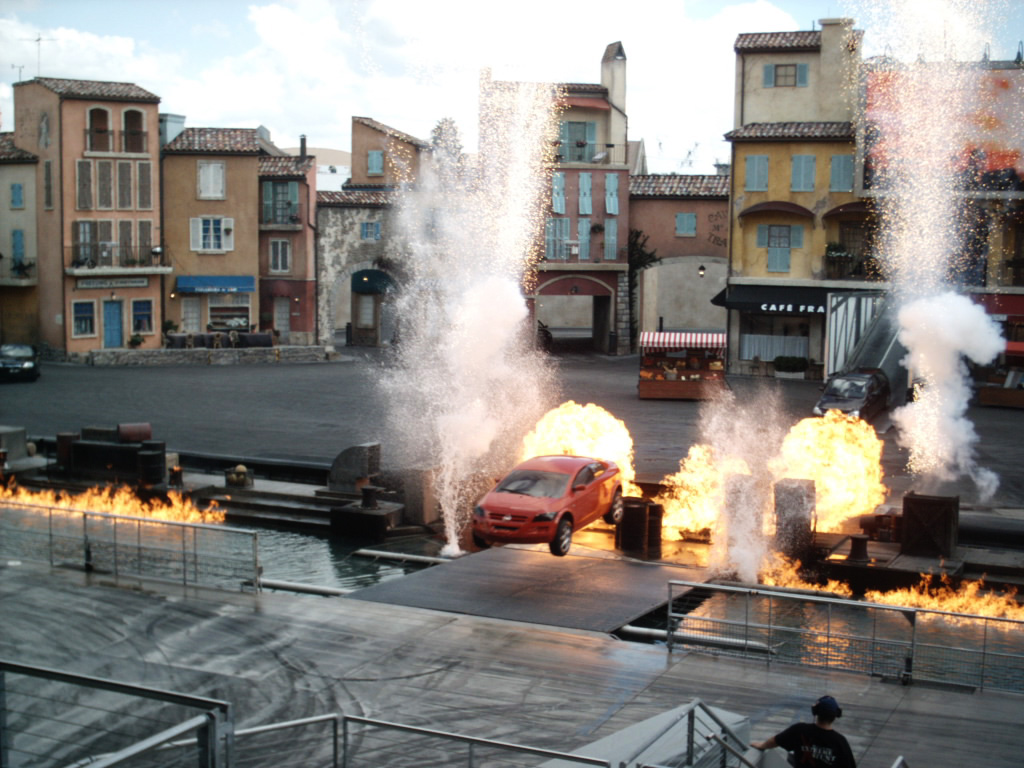 The finale scene of Lights, Motors, Action! Extreme Stunt Show. Photo taken by TheOneVader